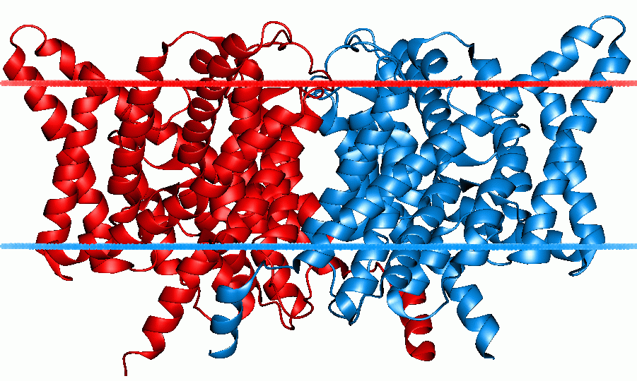 CIC voltage gated chloride channel from Escherichia coli. Protein image from OPM database Dutzler R, Campbell EB, MacKinnon R (April 2003). "Gating the selectivity filter in ClC chloride channels". Science (journal) 300 (5616): 108–12. PMID 12649487.